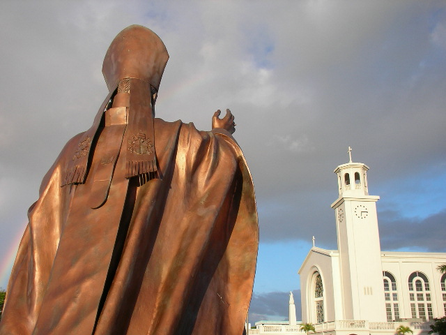 Dulce Nombre de Maria {Sweet Name of Mary} Cathedral Basilica and a statue of Pope John Paul II in Hagatna, Guam.